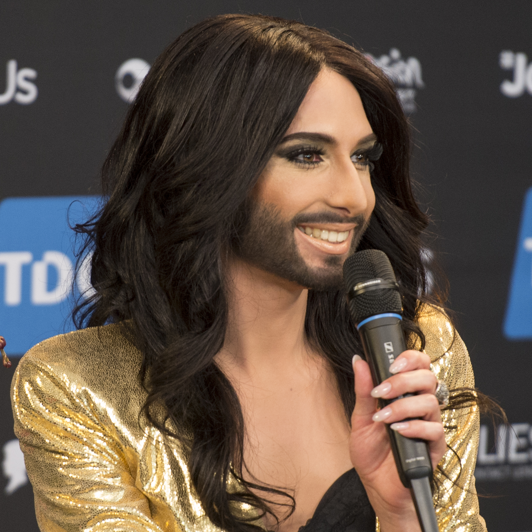 Conchita Wurst at a Meet & Greet during the Eurovision Song Contest 2014 Copenhagen. (Help translate this text)